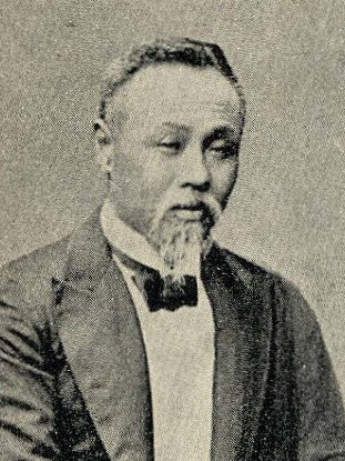 Hayashi Yuzo(林有造) was a government official and politician in Meiji era .